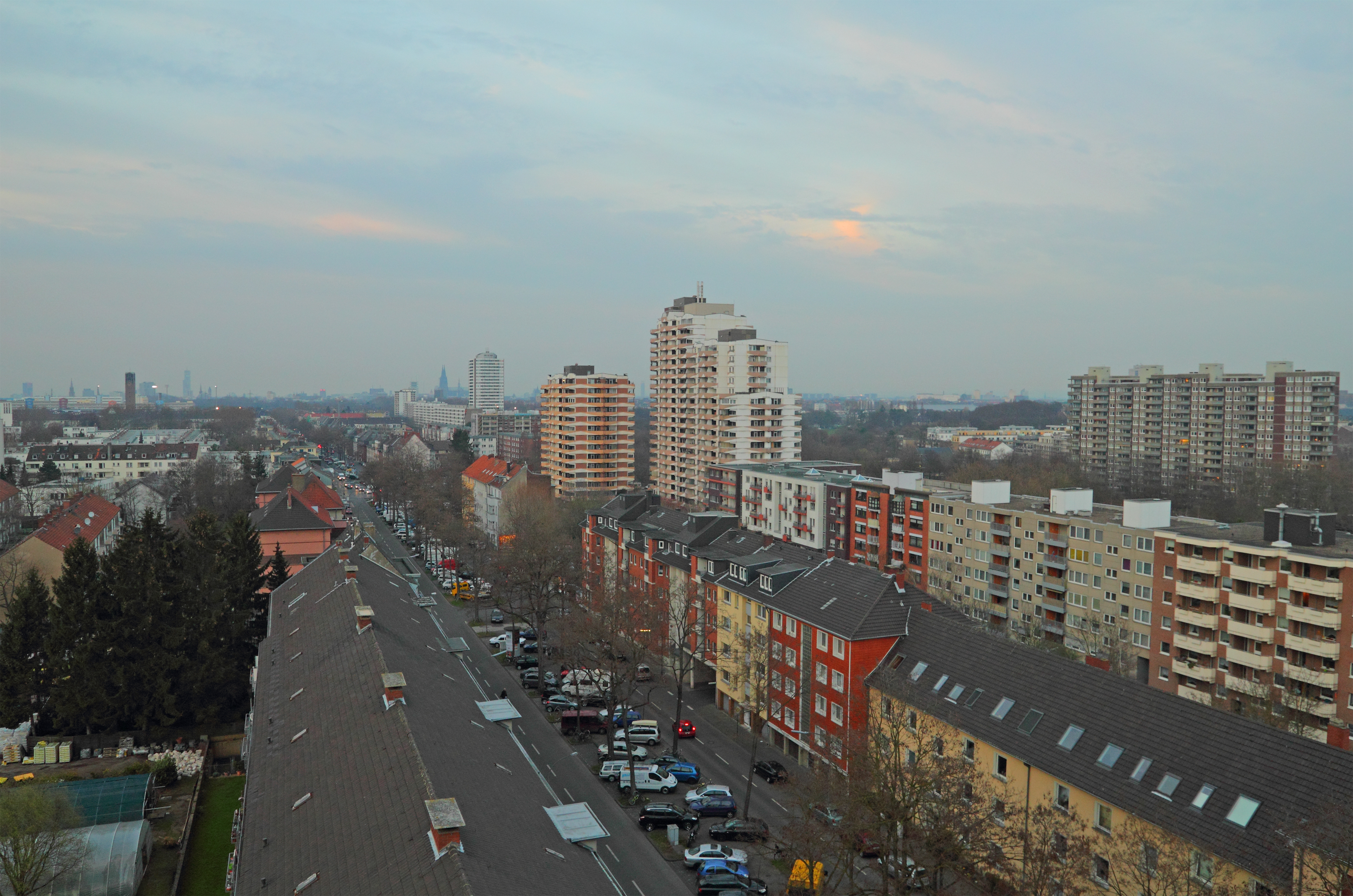 View over Köln-Zollstock from the high-rise at Höninger Platz